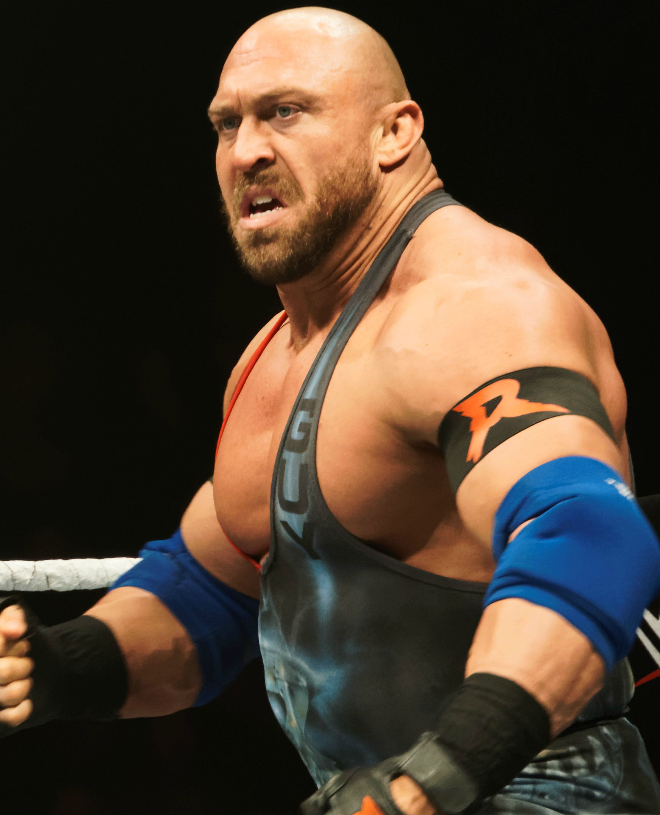 Ryback during a WWE live event in April 2015.